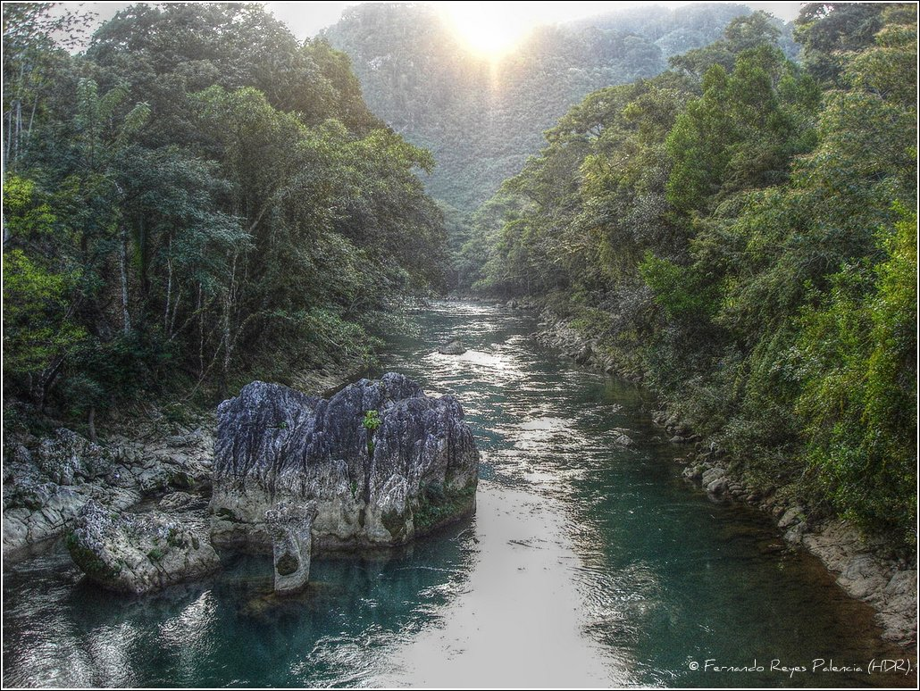 Rio que cruza varias ciudades en Alta Verapaz